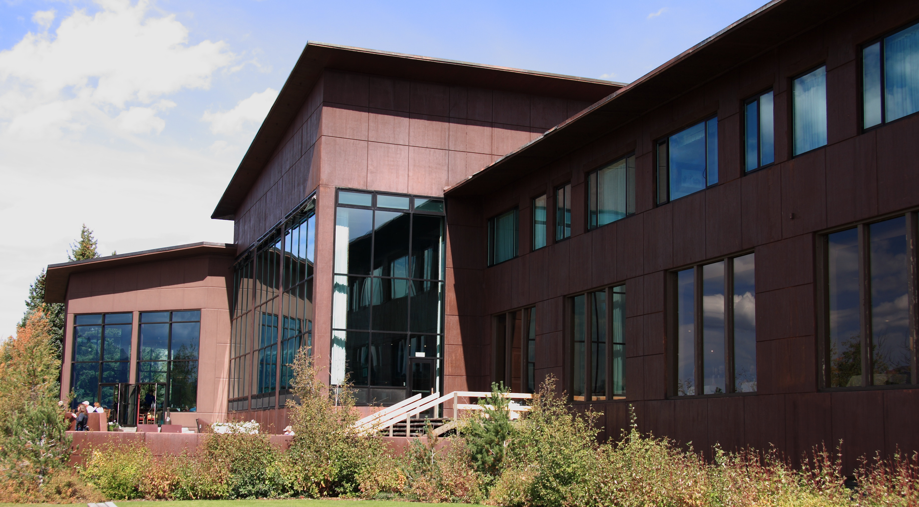 Jackson Lake Lodge, Grand Teton National Park, Wyoming, USA, west side